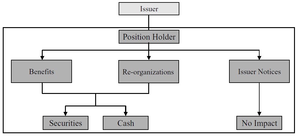 The Image describes the Beneficial Impact Of Corporate Actions, in a table manner. This file is to be used in Corporate action labels. Other information This is a table of beneficial impact of the corporate events.